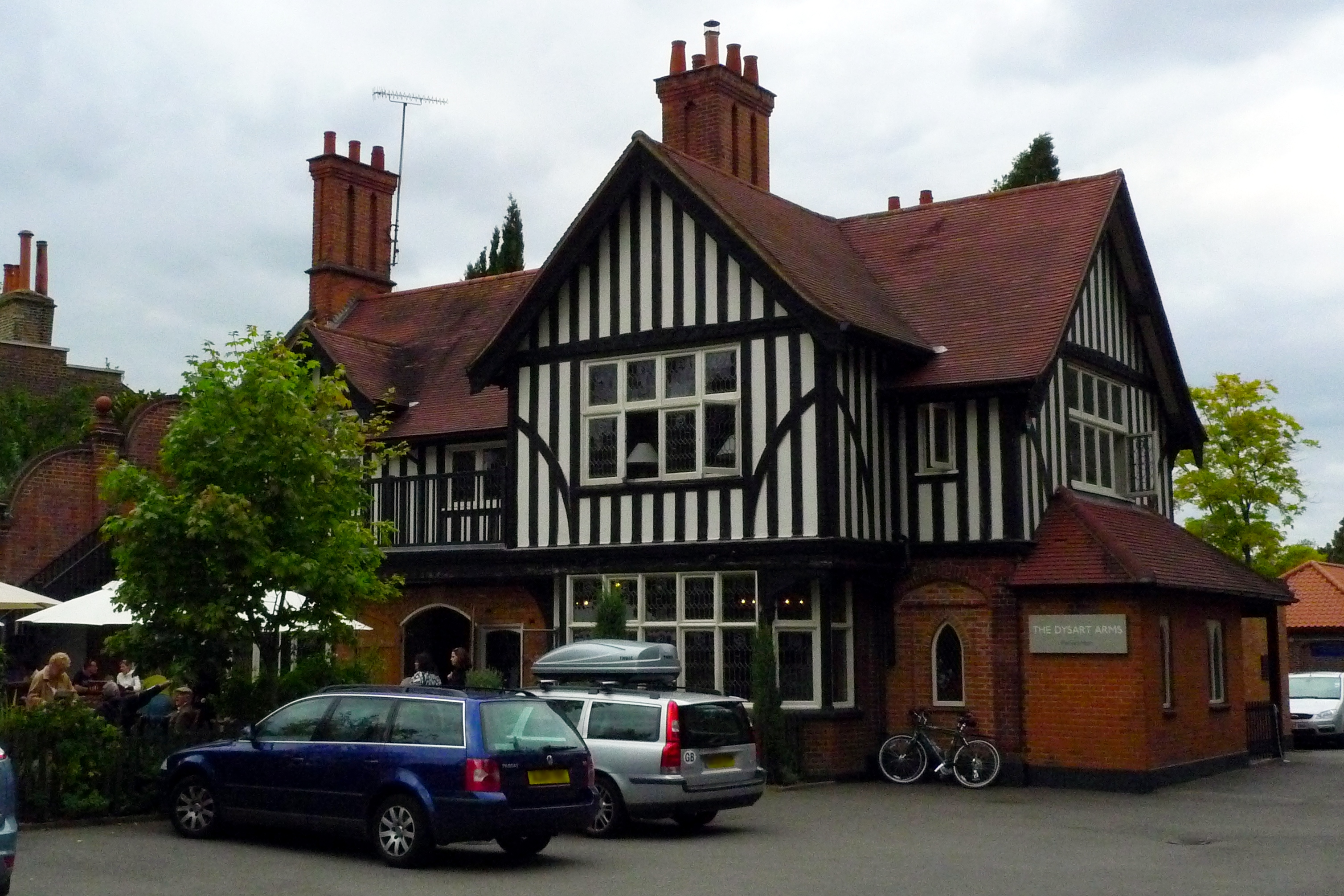 A large gastropub overlooking Richmond Park. (View of pub sign.) Address: 135 Petersham Road. Owner: (website). Links: Randomness Guide to London Fancyapint Beer in the Evening Qype